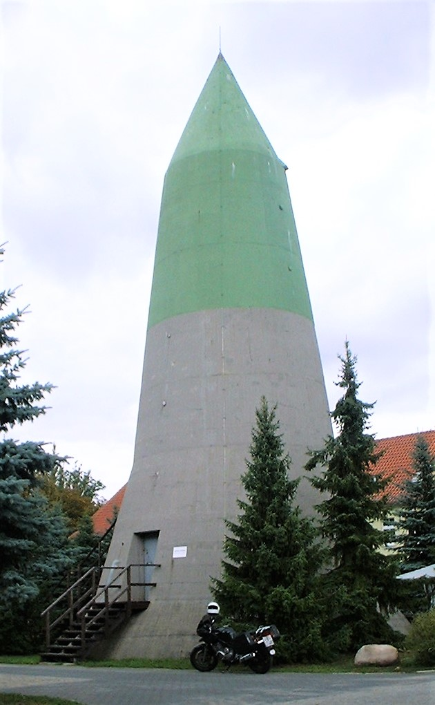 Bunker of typ Winkel in Zossen-Wünsdorf in Brandenburg, Germany